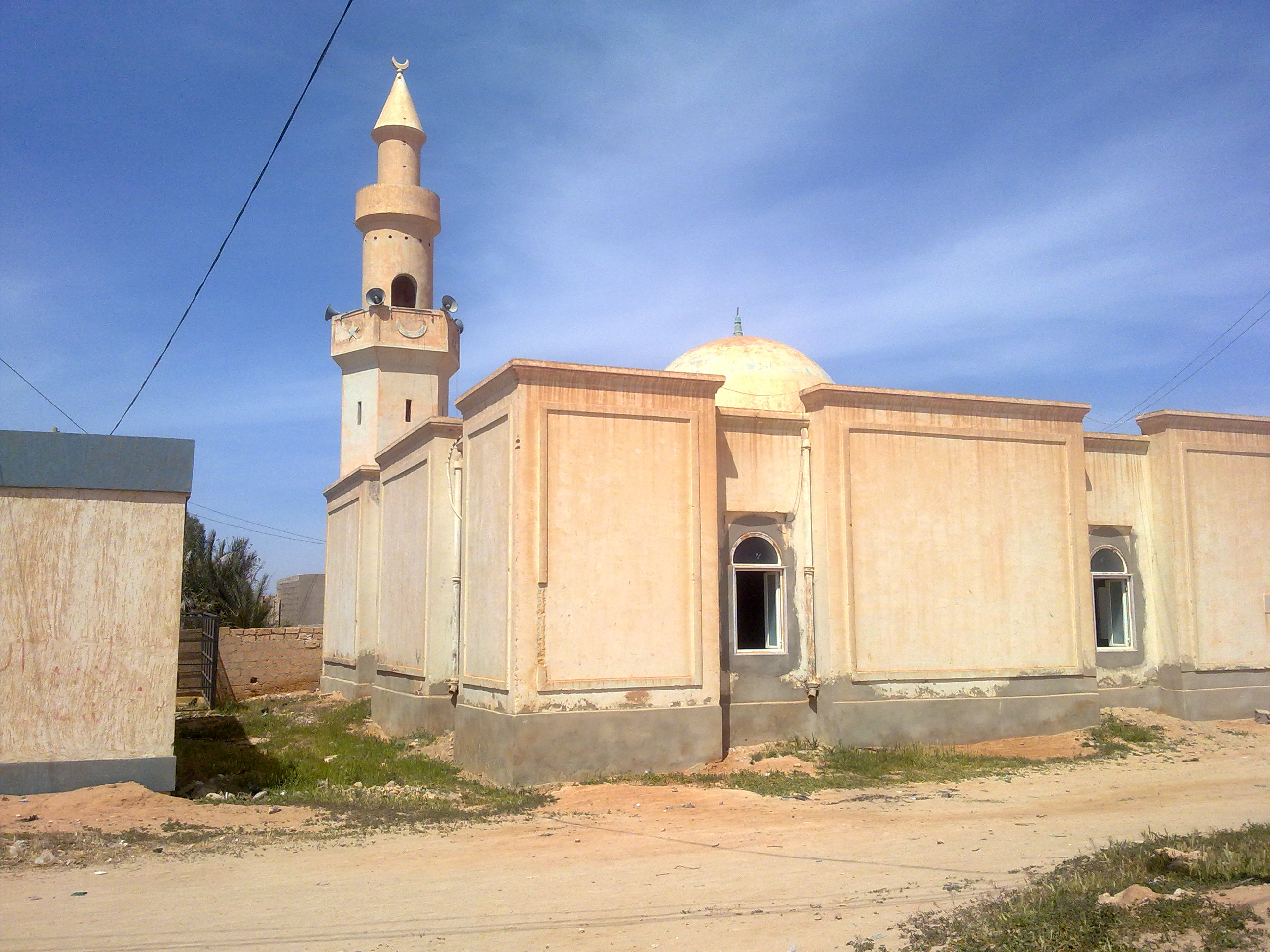 El Magrun's oldest mosque.